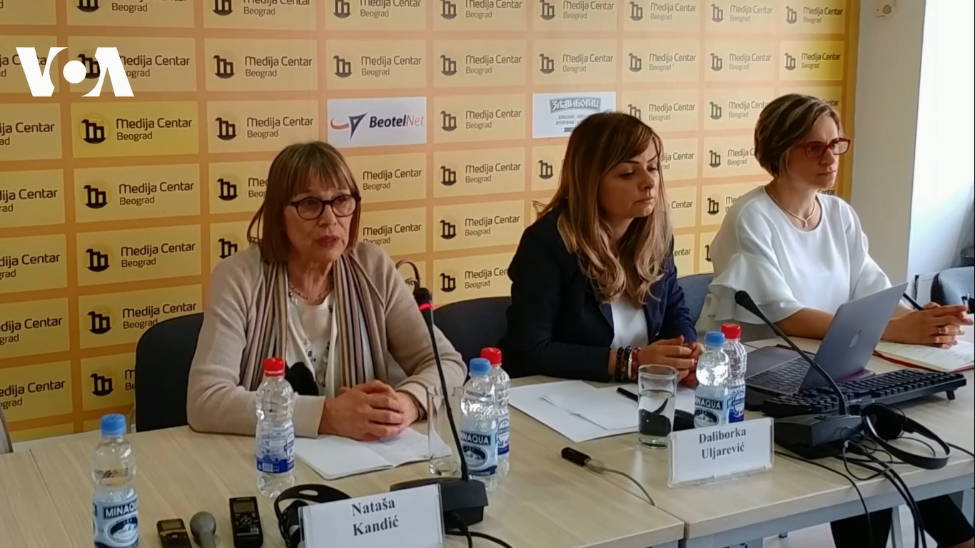 At the conference "Roadmap for RECOM and strengthening the regional network for reconciliation", Natasa Kandic, coordinator for RECOM (on the left), talks about the current student of the work of non-governmental organizations in determining the number and identity of those killed in the wars in the former SFRY. Report by Voice of America, May 23, 2018 (Screenshot from Voice of America video)